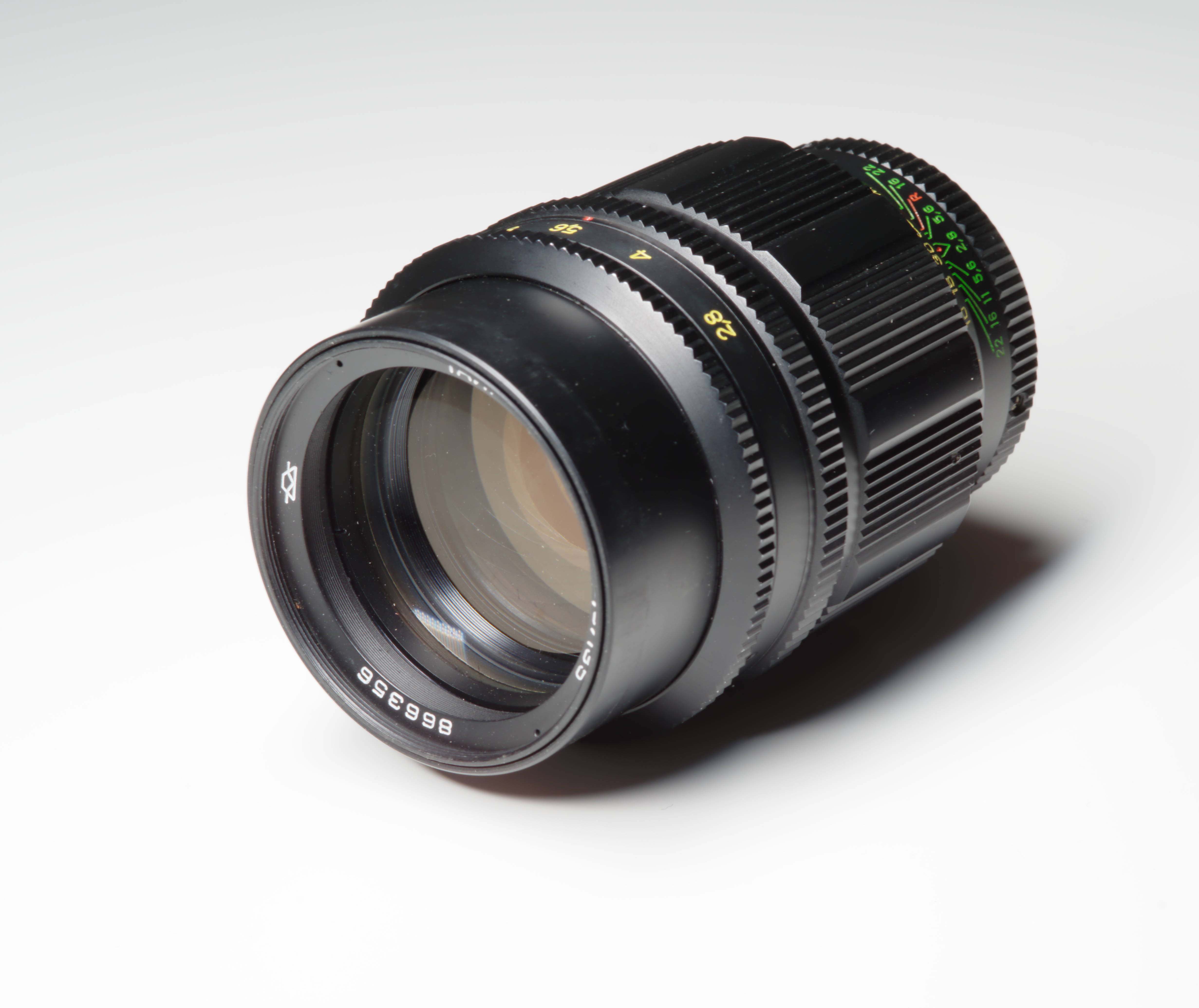 Tair 11A lens manufactured by the KMZ in the Soviet Union. This is an M42 mount 135mm f/2.8 preset lens.